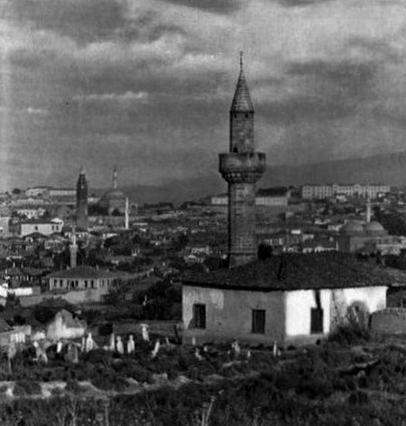 Tutunsuz mosque in Skopje